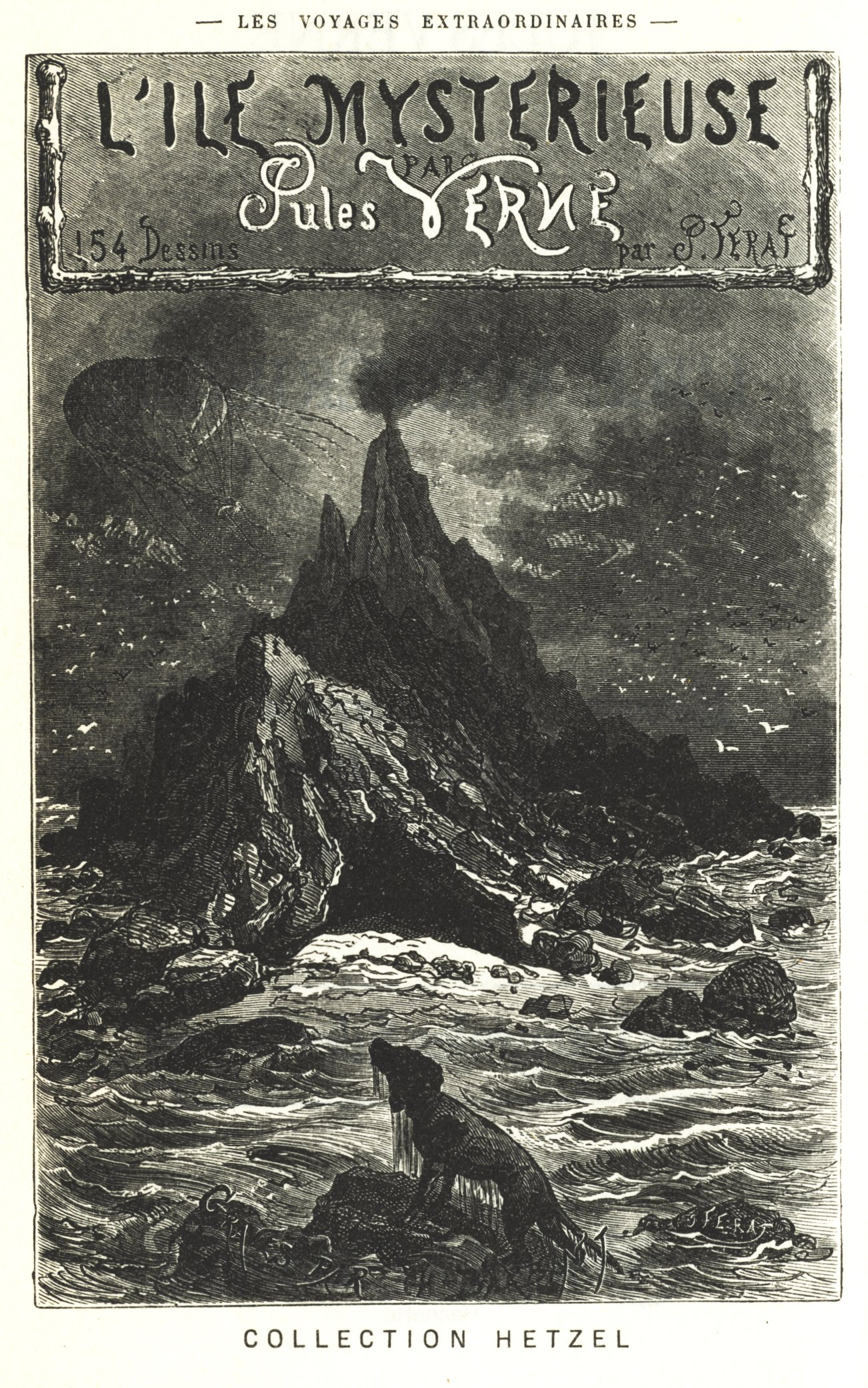 This image was originally featured in the Hetzel edition of The Mysterious Island, and has also been featured in more recent editions (this particular instance was scanned in a recent edition).